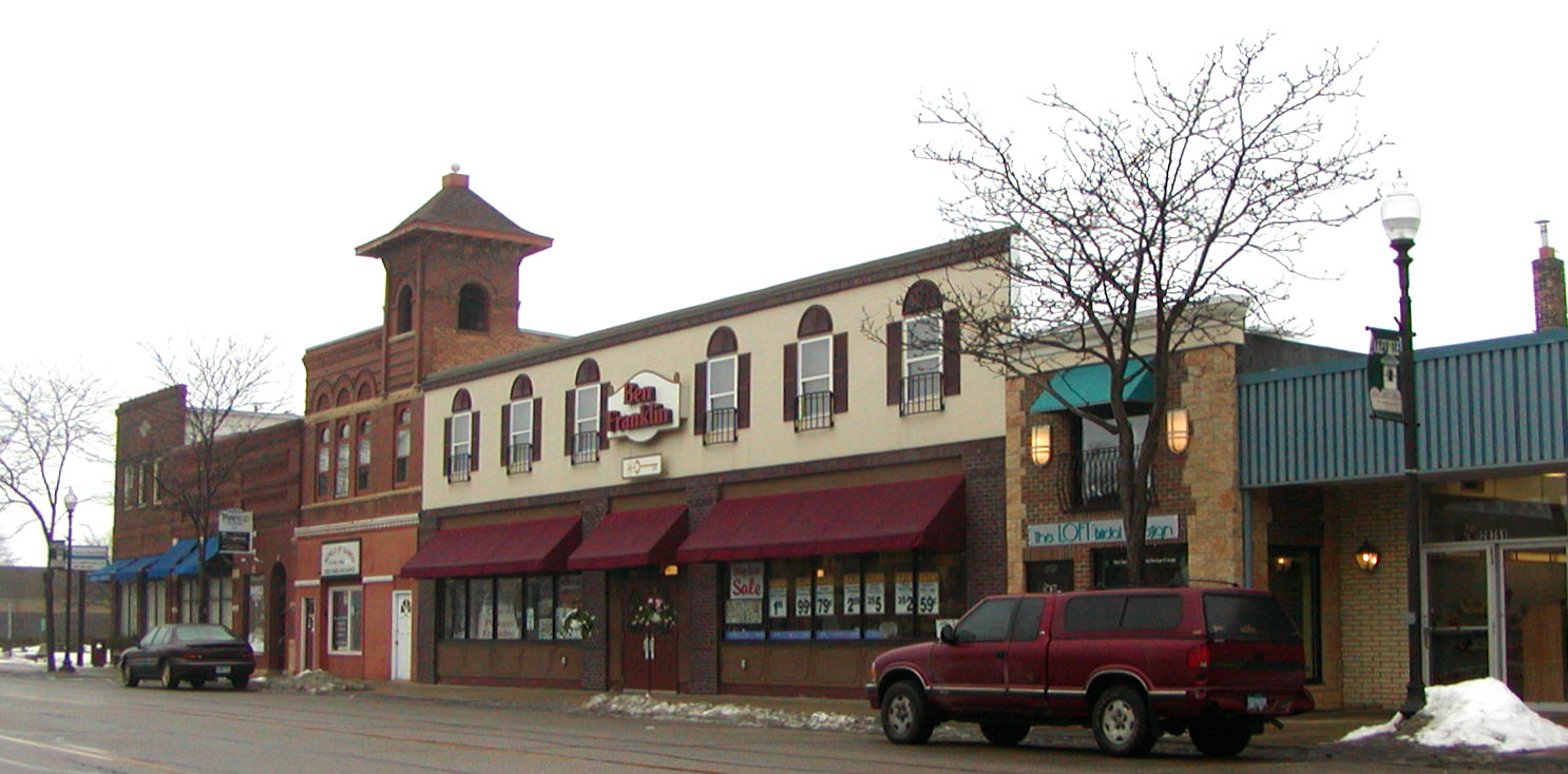 Stores in Lakeville, Minnesota